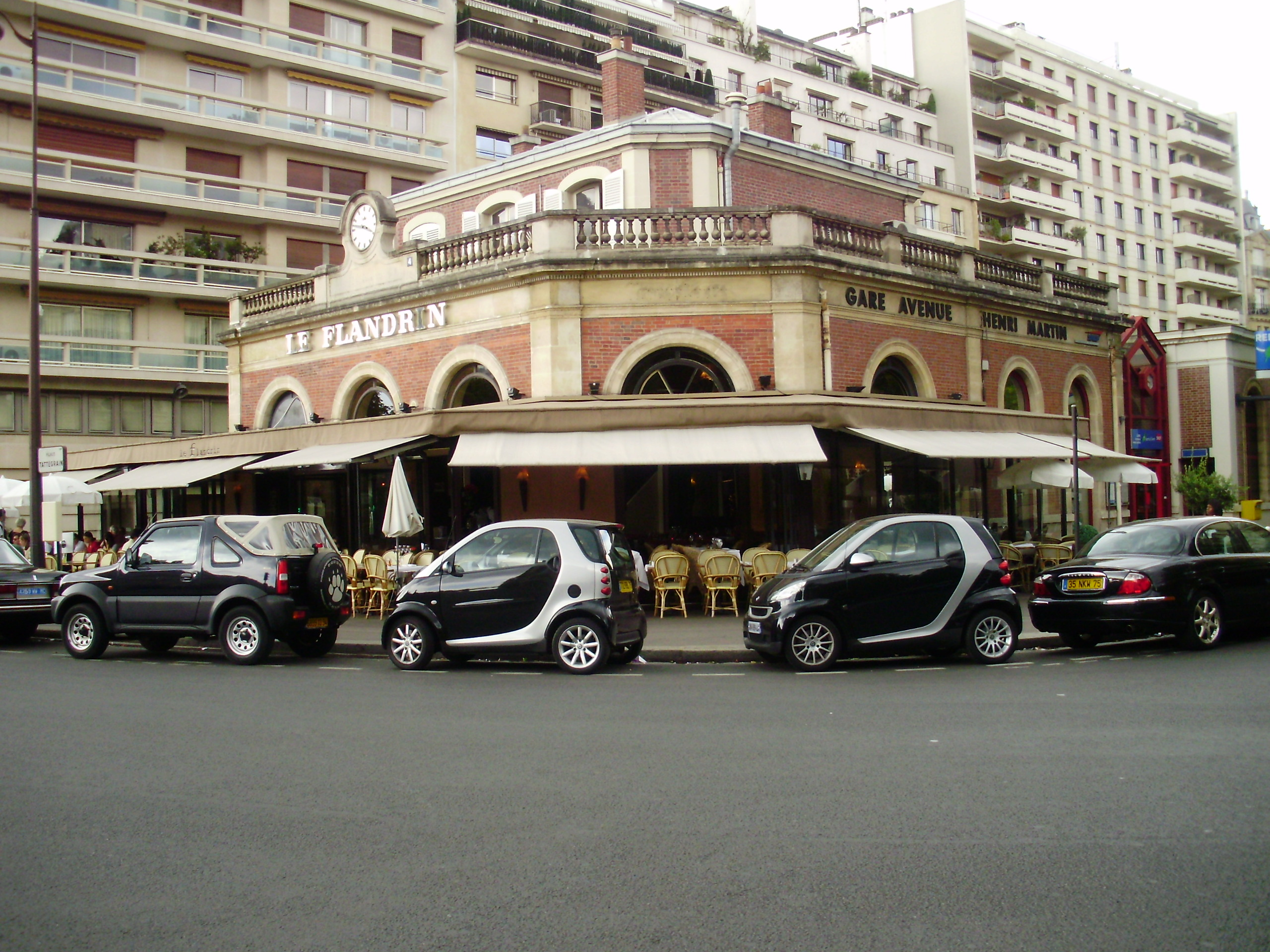 Avenue Henri Martin station, Paris 16e, France (the southern part of the station building is occupied by a restaurant - the entrance of the station is on the right)